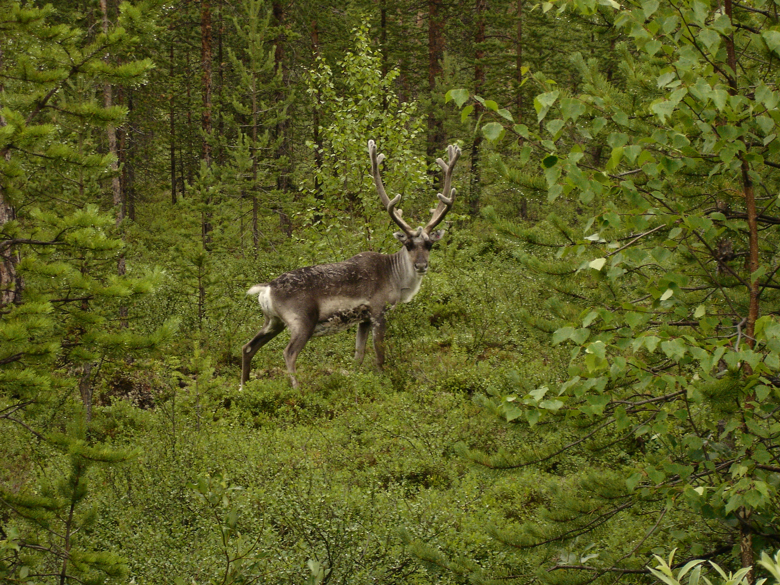 A reindeer in north Finland, not far from the polar circle.